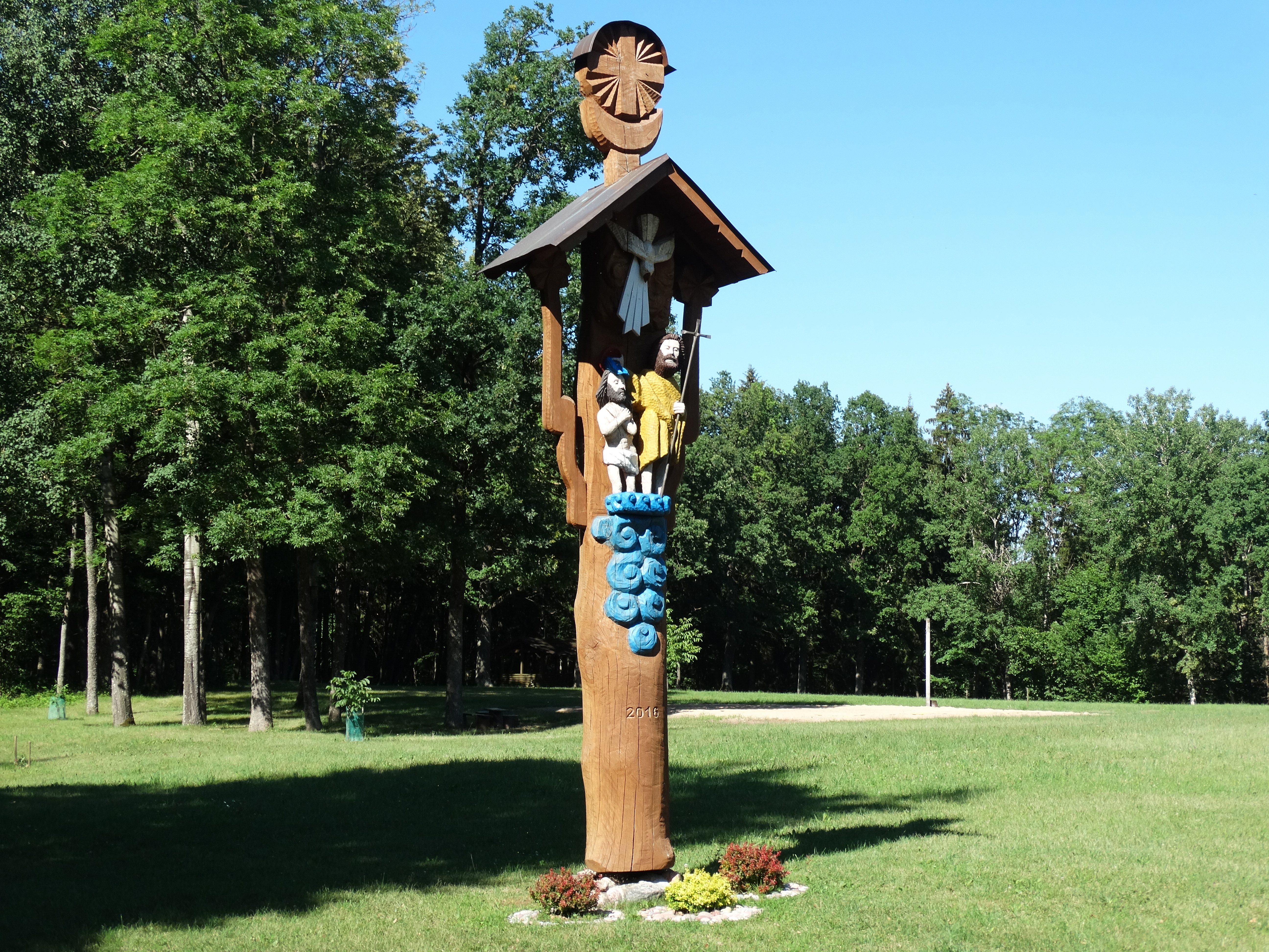 Romainių Kaimelė, Kaunas district, Lithuania